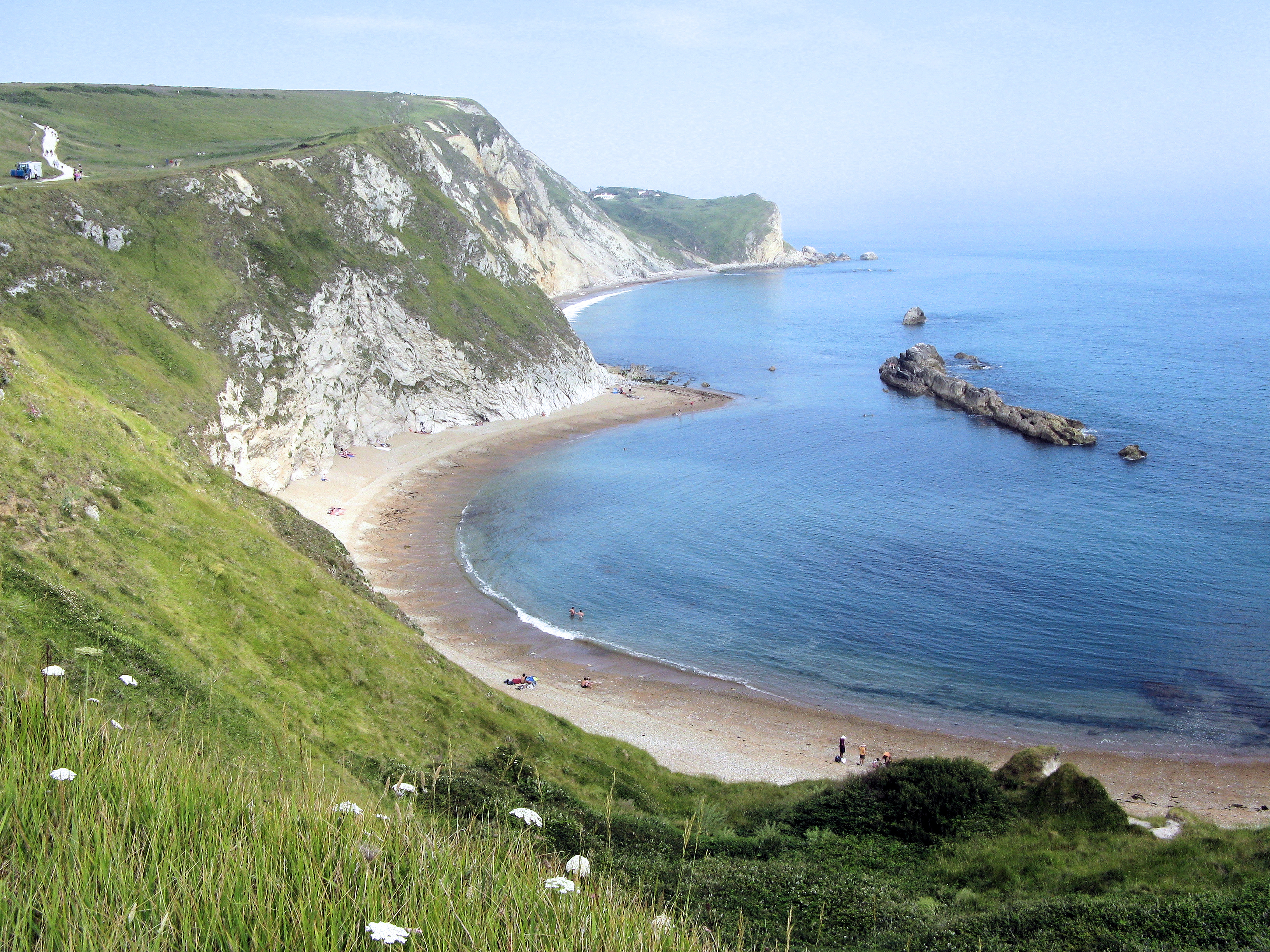 St Oswald’s Bay, Dorset, South West England, looking east towards Lulworth Cove (not seen). The nearest Head in the picture is Man O’War Head and the high one in the distance is either Hambury Tout or Dungy Head (I can‘t tell which). The off-shore rocks are Man O‘War Rocks, the cove belw the camera is Man O‘War Cove.